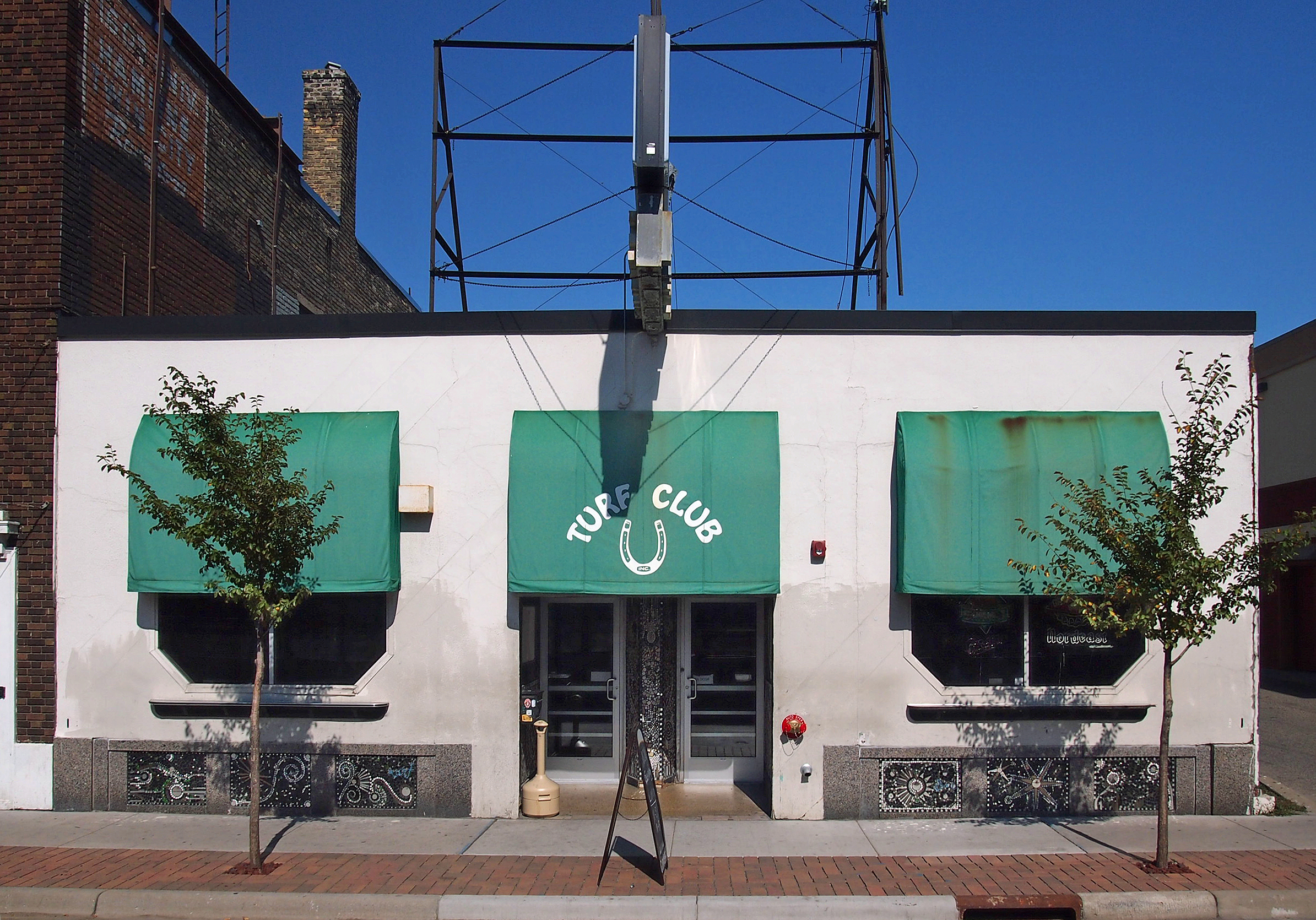 The Turf Club, 1601 University Ave W, St Paul, Minnesota, USA. Viewed from the south.